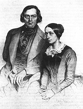 Robert Schumann and Clara Schumann, picture from 1847